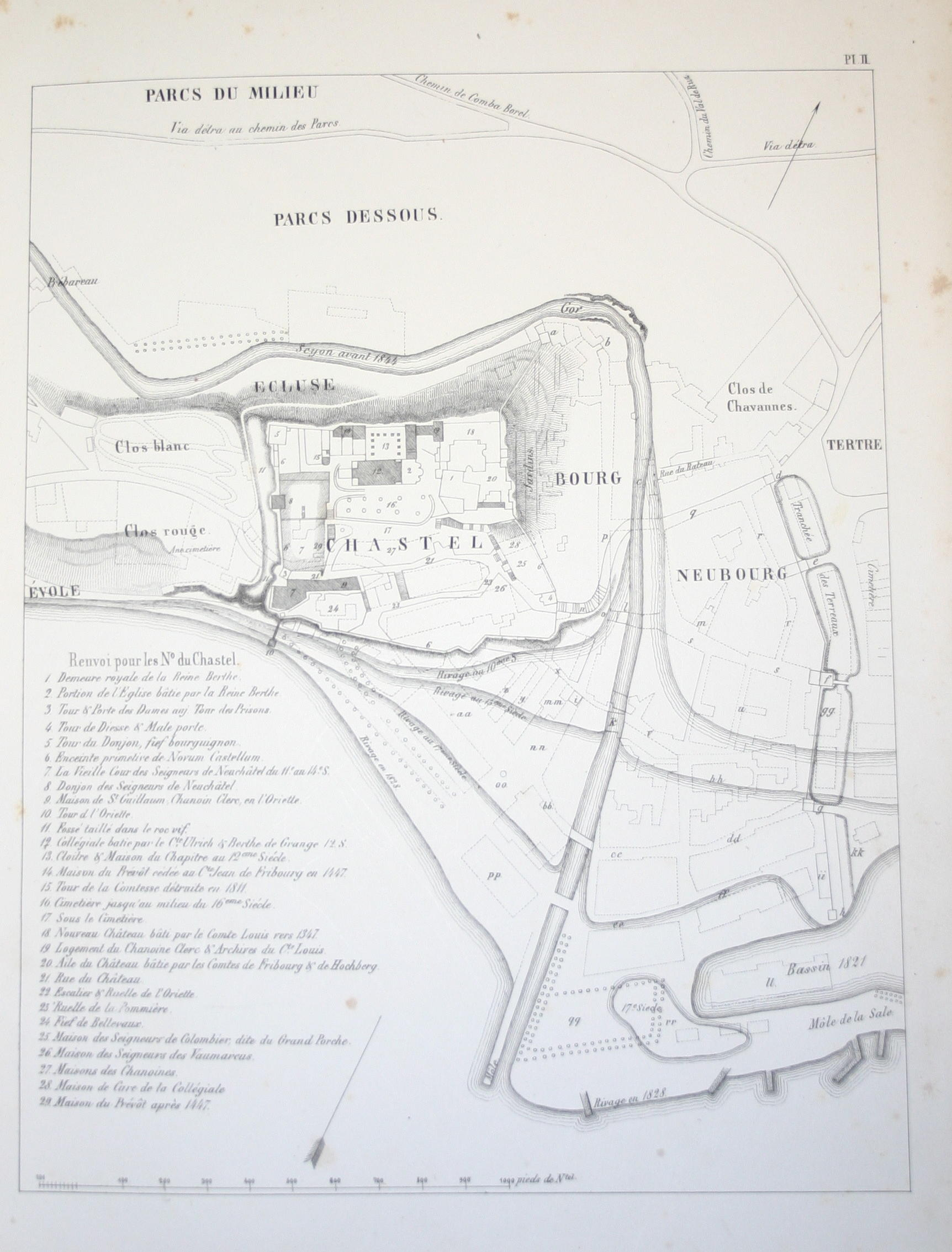 View of Neuchâtel